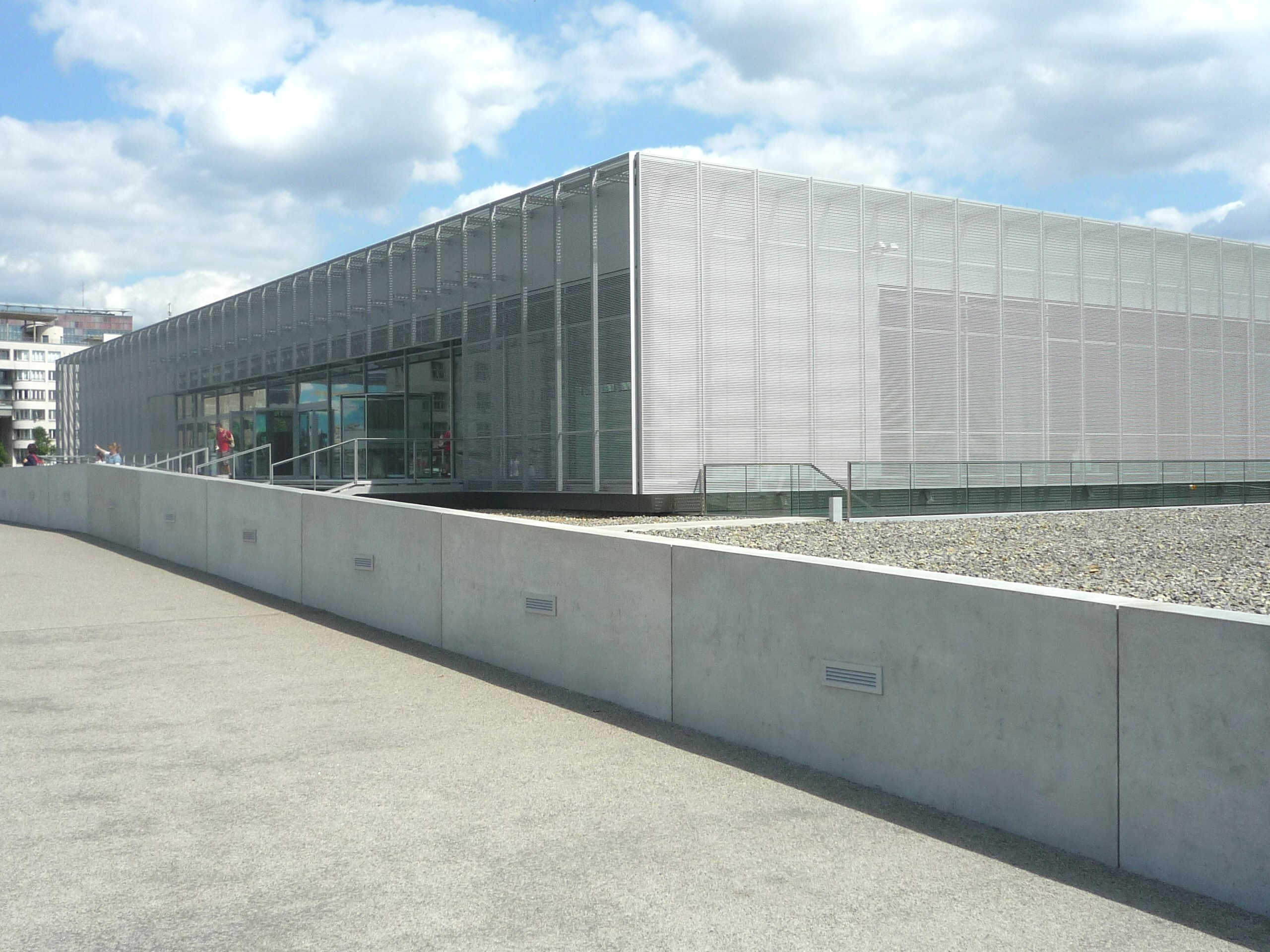 Berlin, Niederkirchnerstraße. Exhibition "Topographie des Terrors" (topography of terror). View to the exhibition-hall.